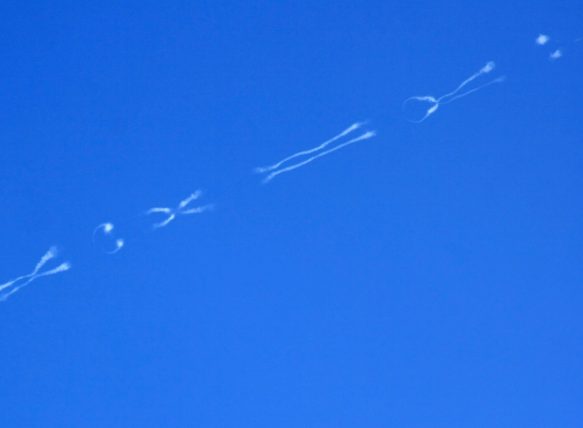 This contrail is example of Crow Instability. Crow Instability is an inviscid line-vortex instability, named after its discoverer S. C. Crow. It is observed when the vortices caused by aircraft are being whirled from being otherwise straight contrails into spirals then donut-shaped rings.